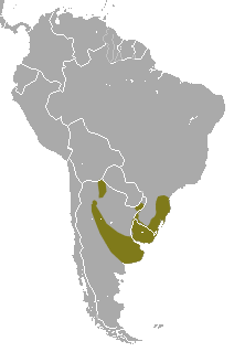 Eastern Short-tailed Opossum (Monodelphis dimidiata) range